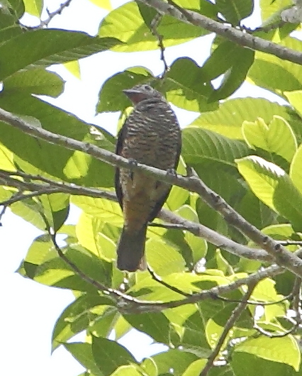 Purple-throated cotinga (female) at Apiacás - MT - Brazil